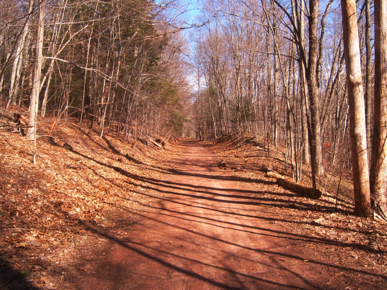 Here is the former right of way of the Middletown, Meriden, and Waterbury Railroad. As of summer 2006, it is currently being converted into a multi-use recreational linear trail, which is slated to open in late 2006. This picture was taken just weeks before construction began in April 2006.